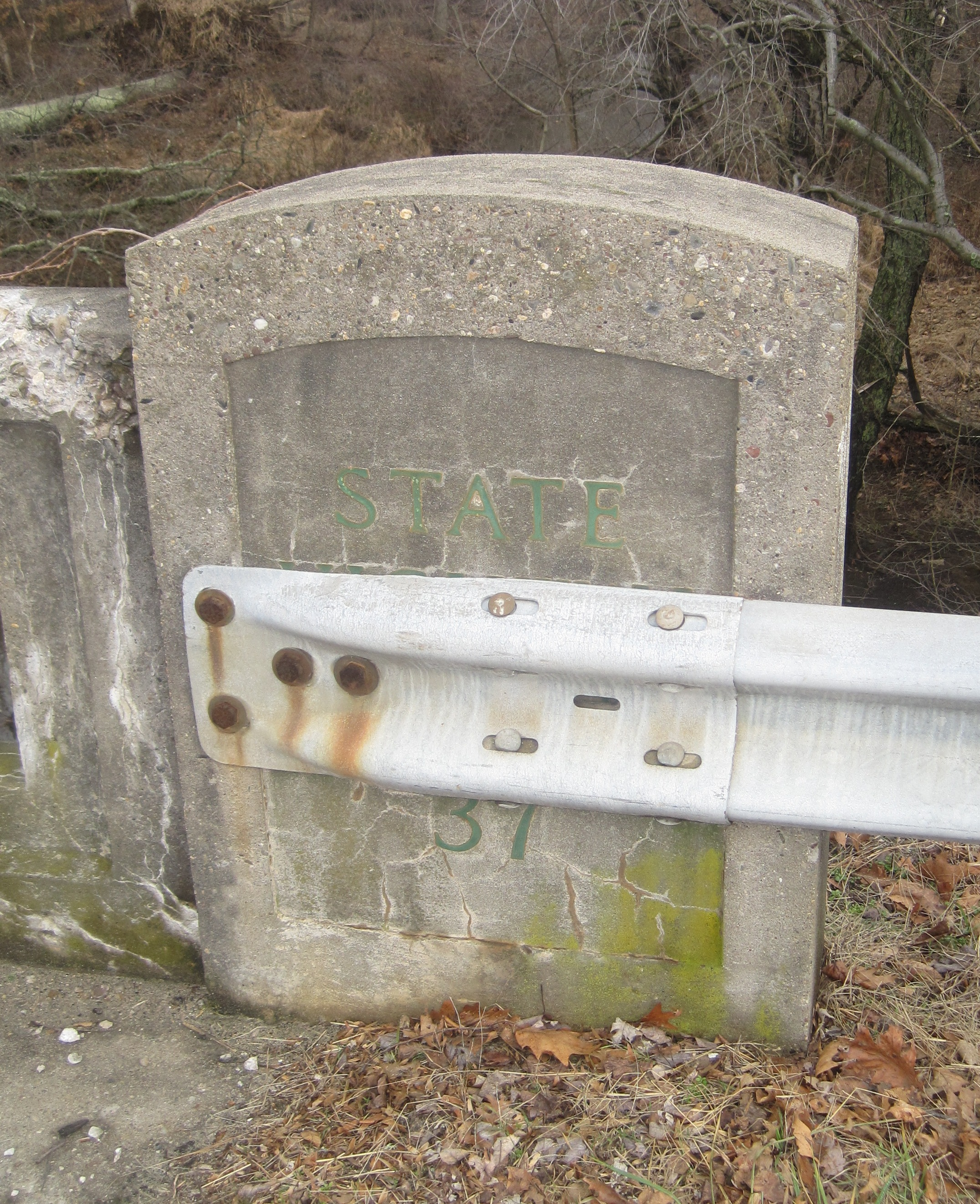 Close-up of side of bridge in this photo. The bridge says (despite obscured by the guard rail) "State Highway Route 37".